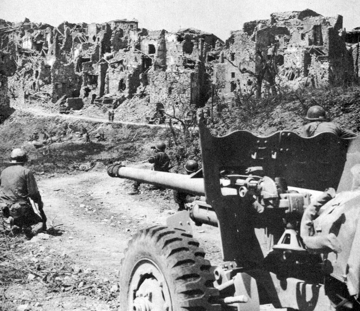 American soldiers fighting near Monte Cassino, Italy